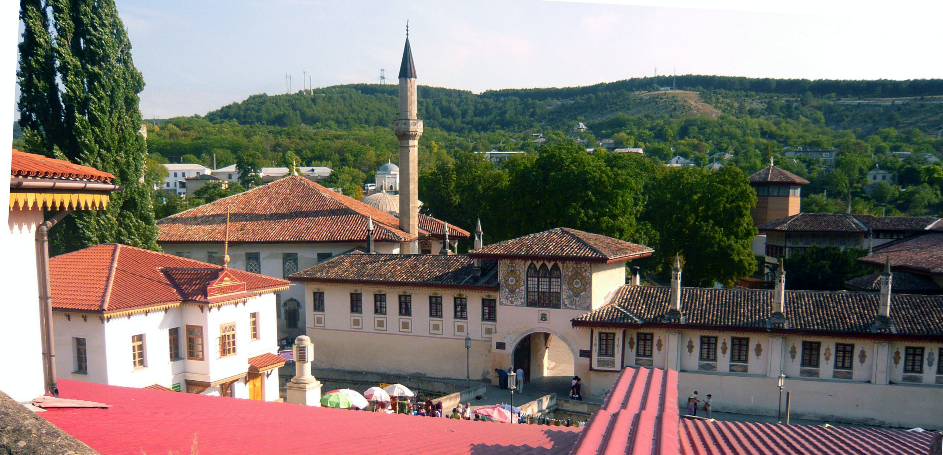 Khans Palace